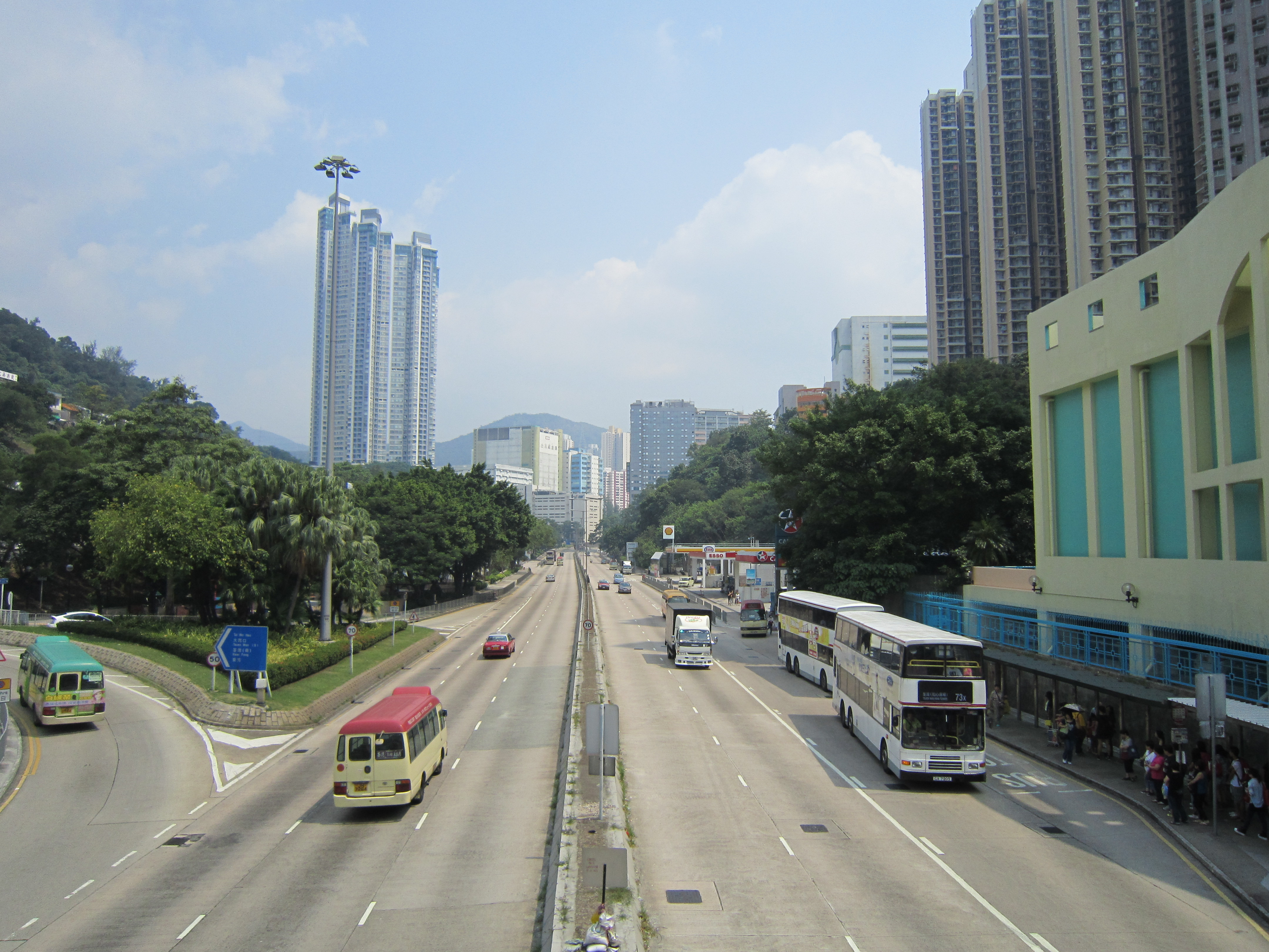 Castle Peak Road Kwai Chung section